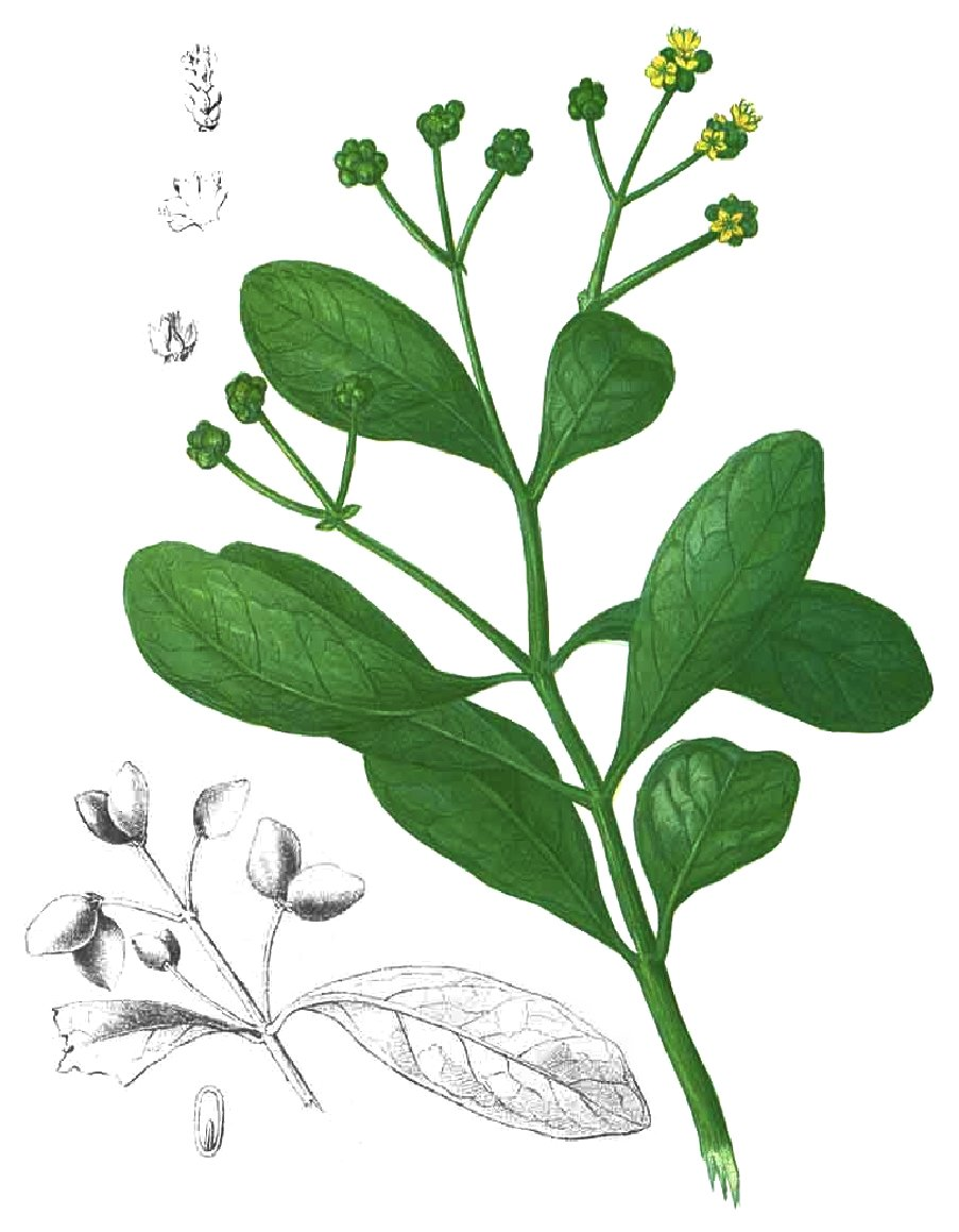 Plate from book